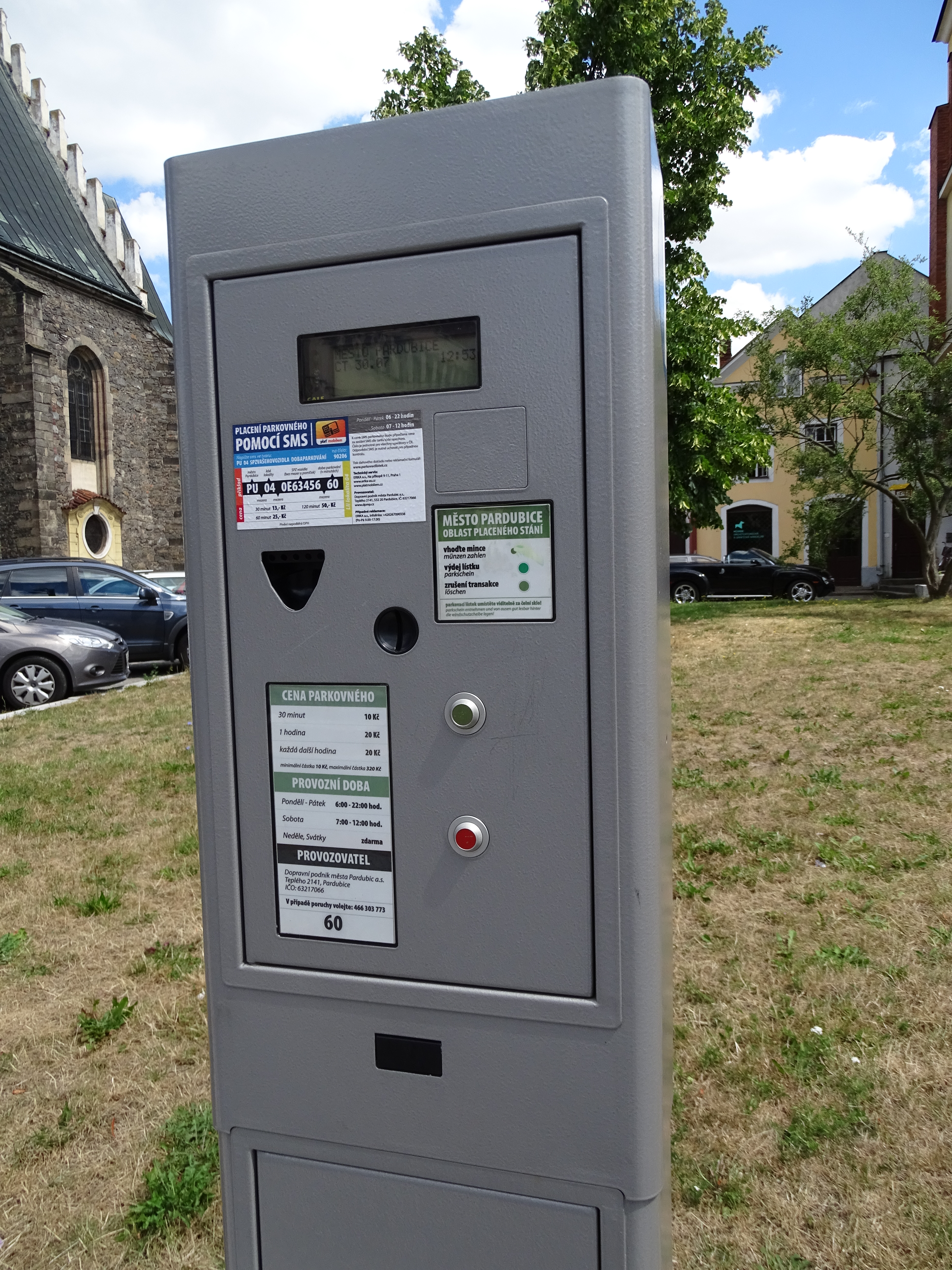 Pardubice I-Zelené Předměstí, Pardubice District, Pardubice Region, Czech Republic. Náměstí Republiky, a parking ticket machine.